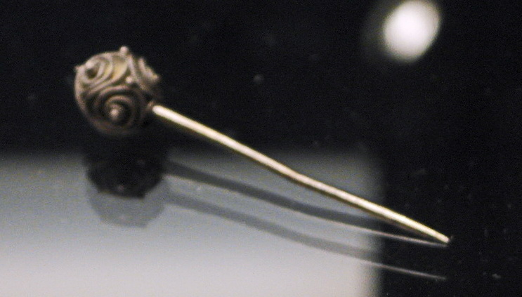 Silver hair pin from the Carolingian period (750-800) found in Dorestad/Wijk bij Duurstede, now in the Rijksmuseum van Oudheden, Leiden, the Netherlands.